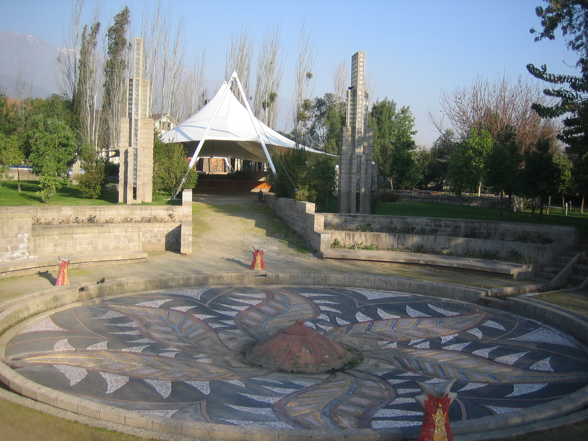 Parque de la Paz / Villa Grimaldi in Santiago de Chile. Pavilion, and memorial towers and fountain (dry).